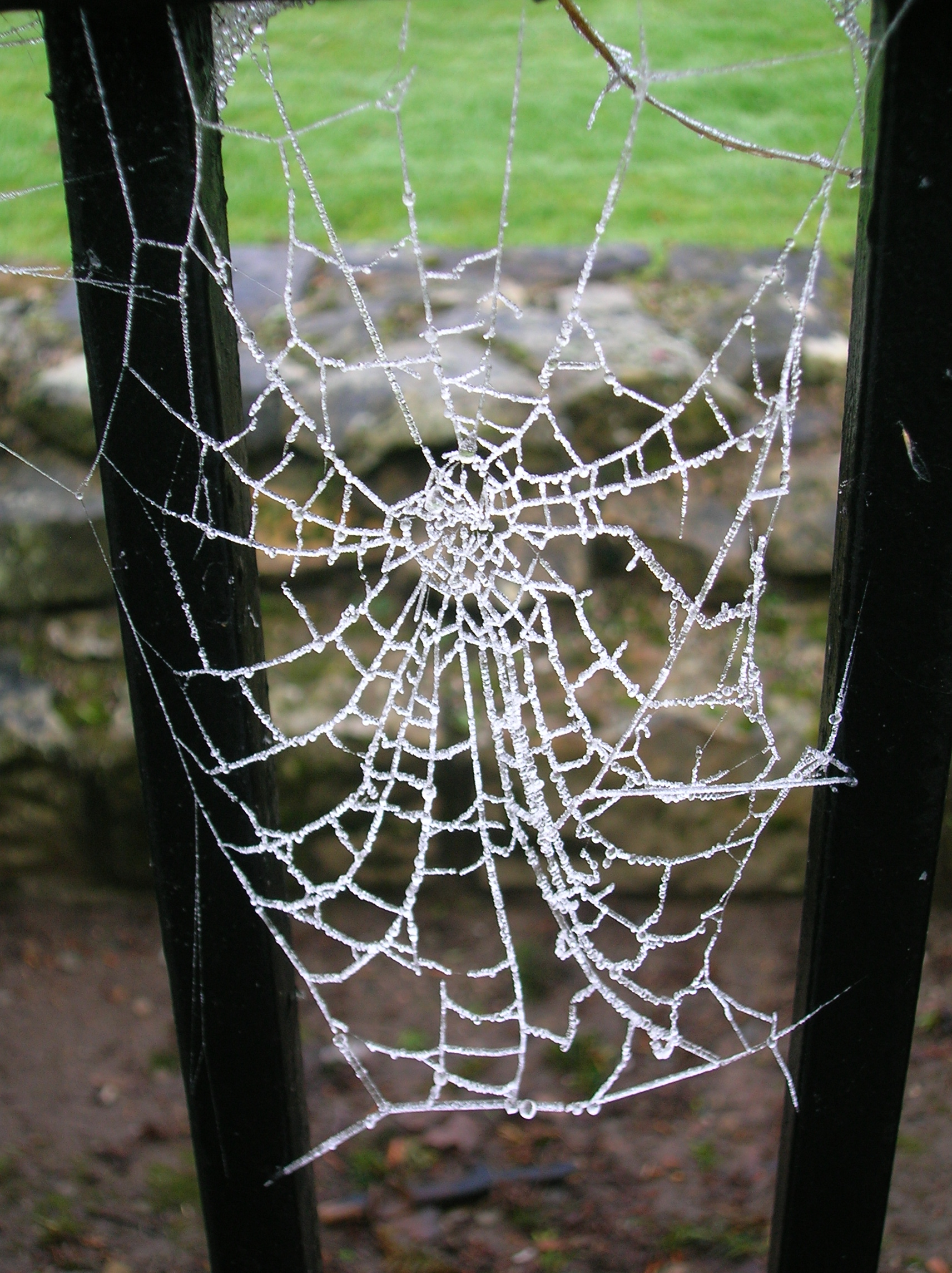 A frozen spider's web at Kilwinning, North Ayrshire, Scotland